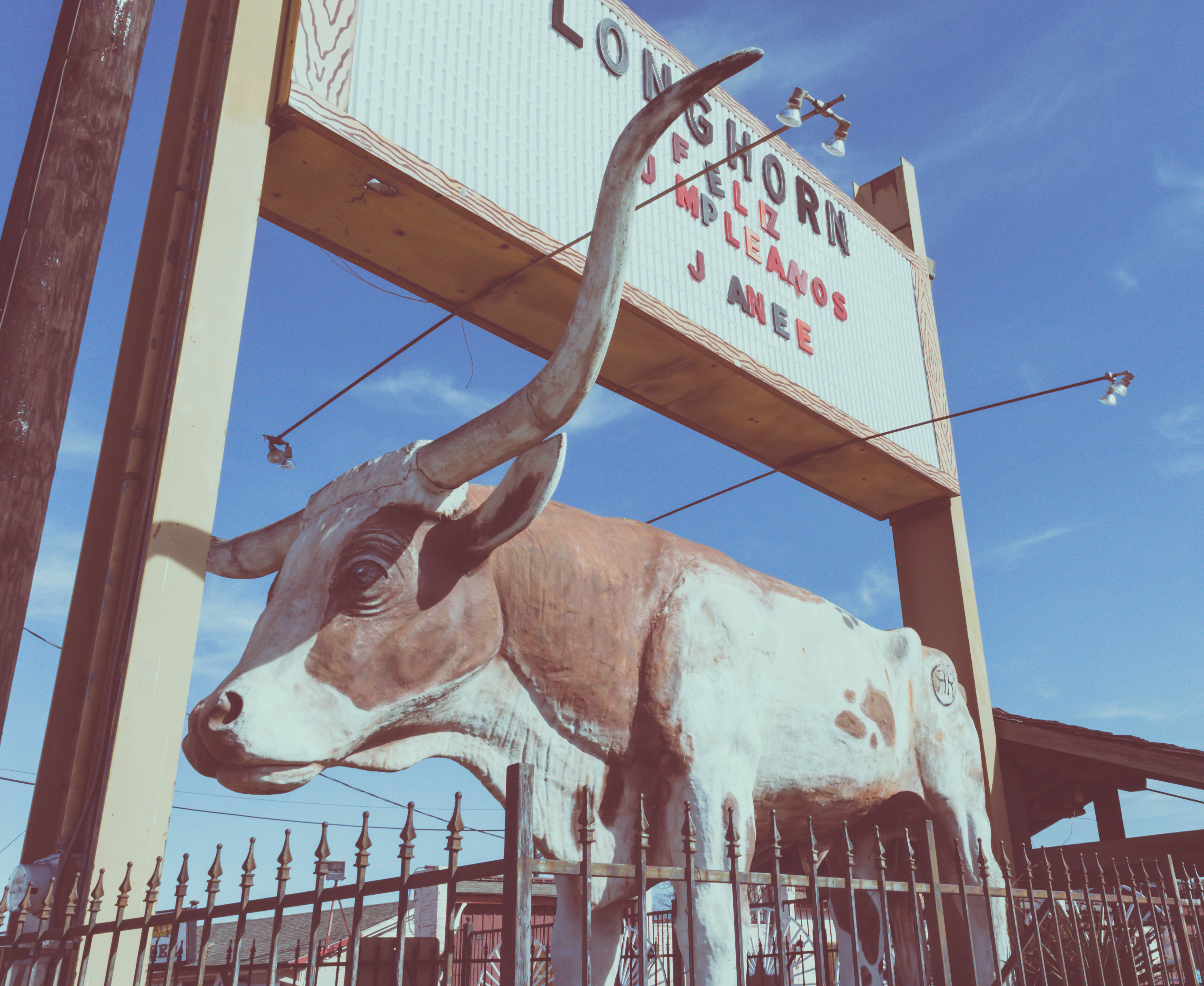 The historic sign and longhorn bull out front of the Longhorn Ballroom.